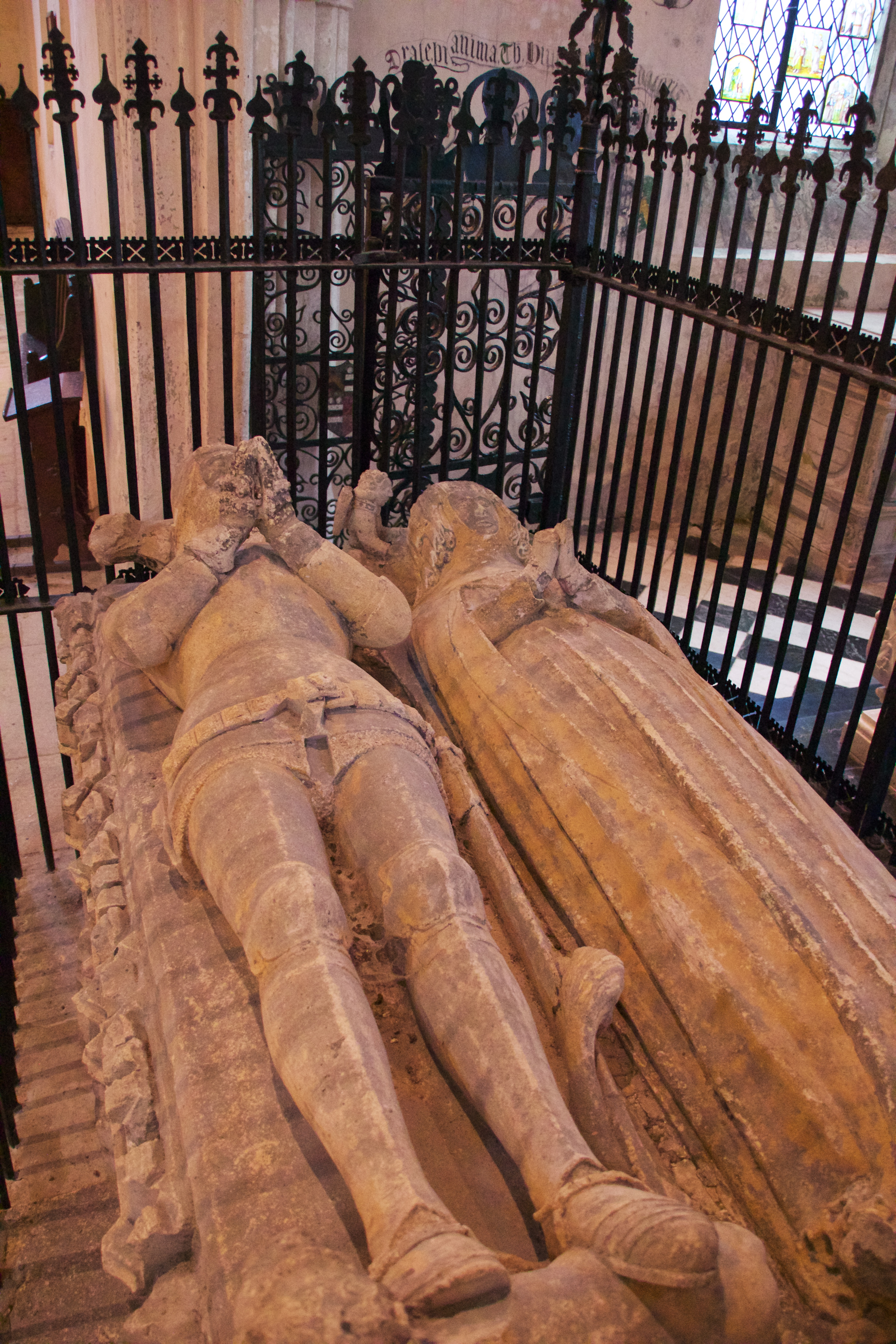 Effigies of Sir Thomas de Hungerford (d.1398) and his second wife Joan Hussey (d.1412), mother of Walter Hungerford, 1st Baron Hungerford (d. 1449). Farleigh Hungerford Castle Chapel, Wiltshire/Somerset